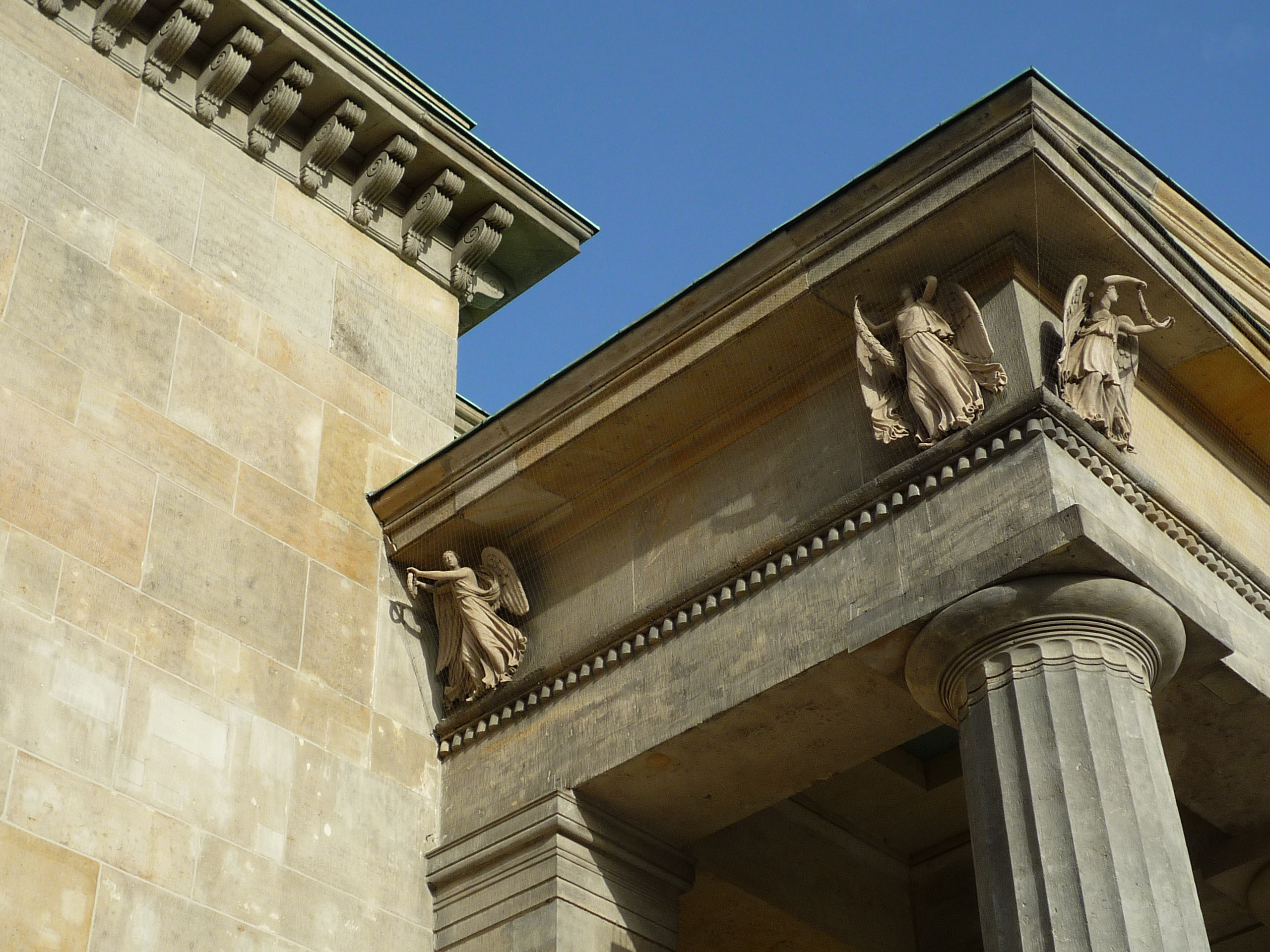 The "Neue Wache" Berlin, built by Karl Friedrich Schinkel (1781-1841). Detail of the facade.